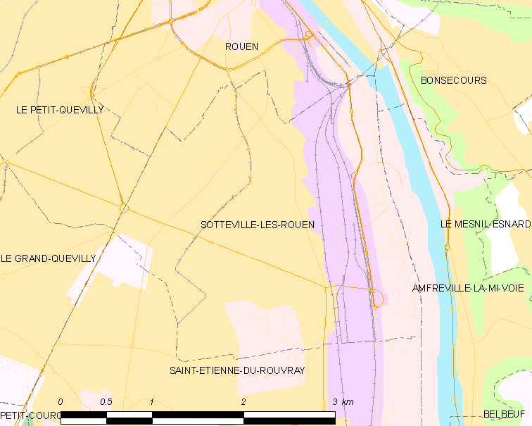 Map of French municipality Sotteville-lès-Rouen